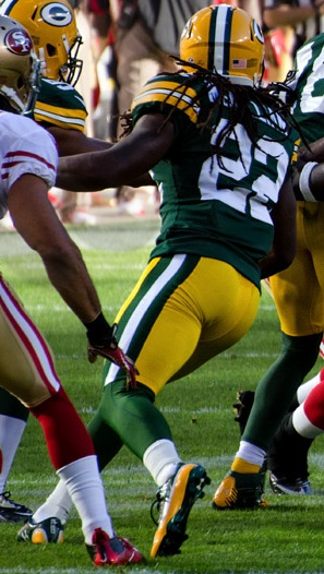 San Francisco 49ers vs. Green Bay Packers at Lambeau Field on September 9, 2012. Photo by Mike Morbeck.